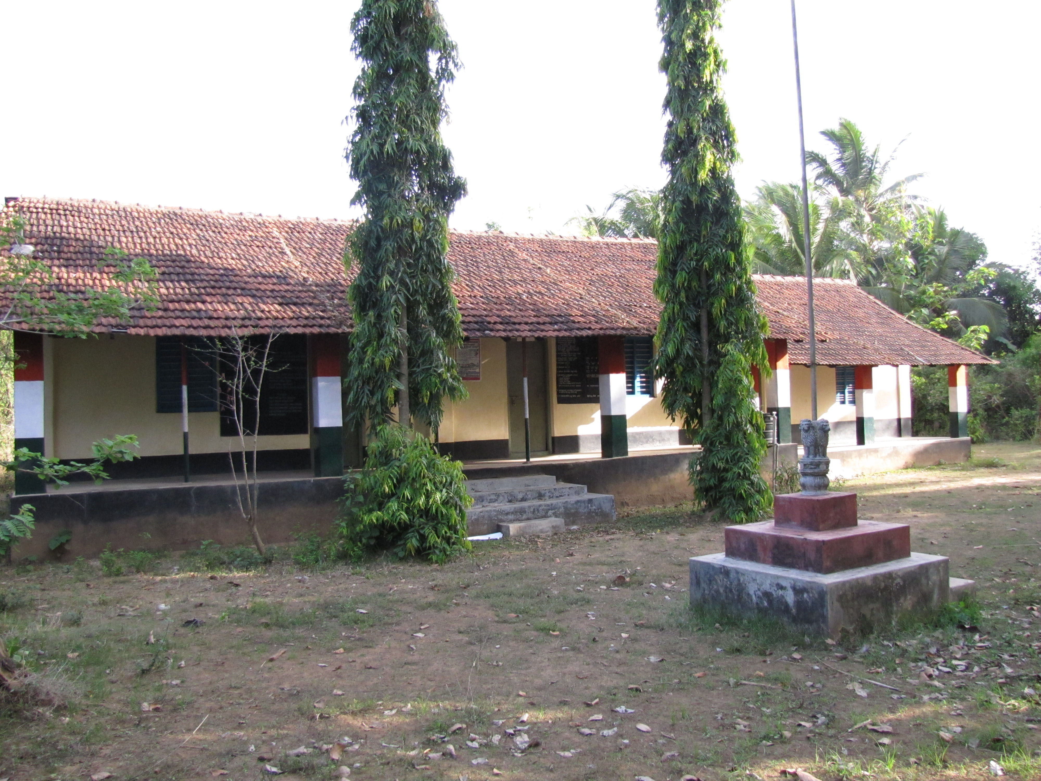 The one and only school in the Island Pavoor Uliya, a small Island in Nethravathi river, 12KM away from Mangalore